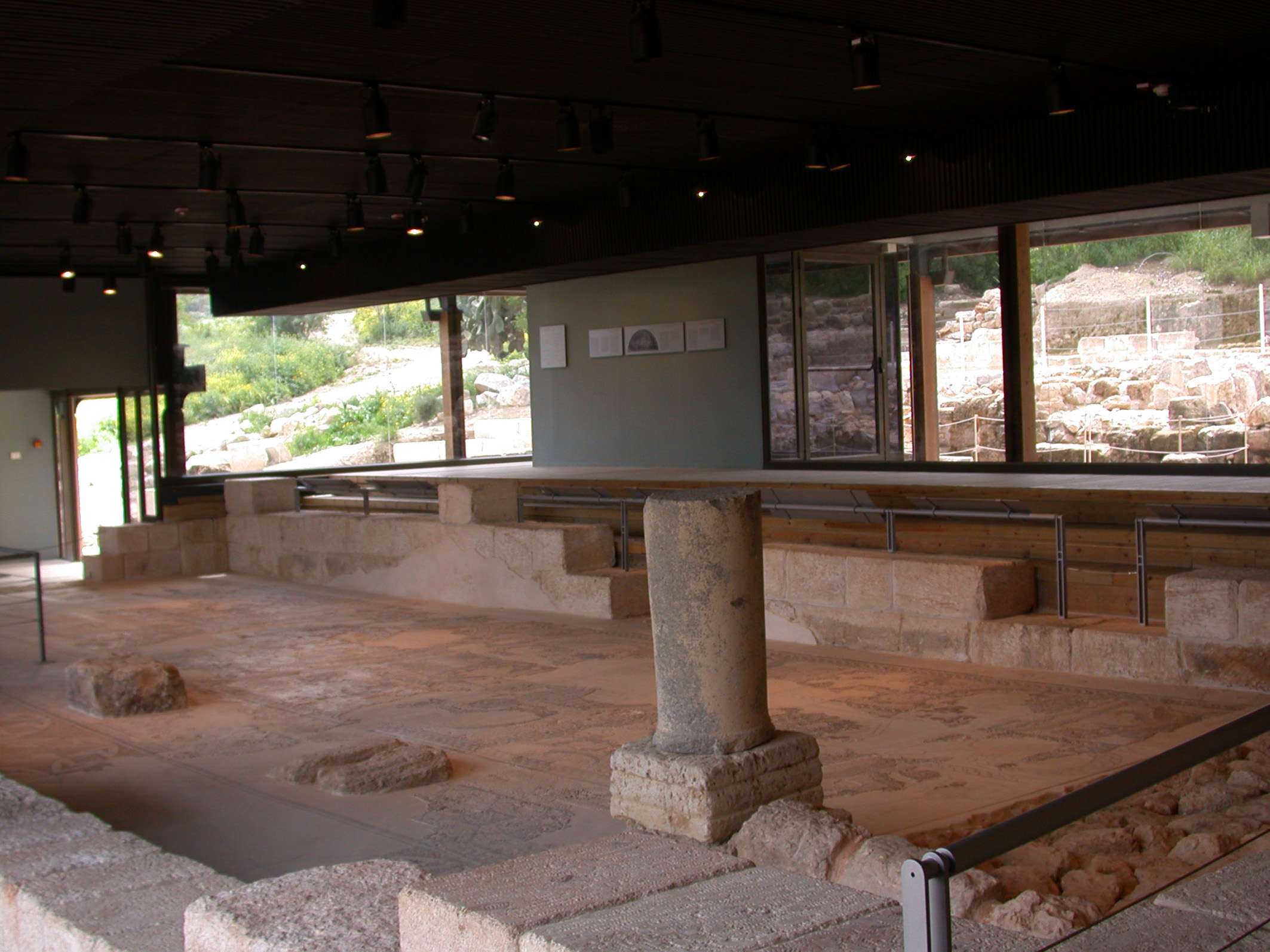 Picture of an Archaeological site בית הכנסת בציפורי